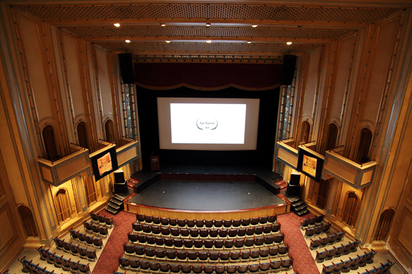 Fletcher Hall is the main auditorium (seats 1,016) in the Carolina Theatre complex — Durham, North Carolina. Late Beaux-Arts style interiors.